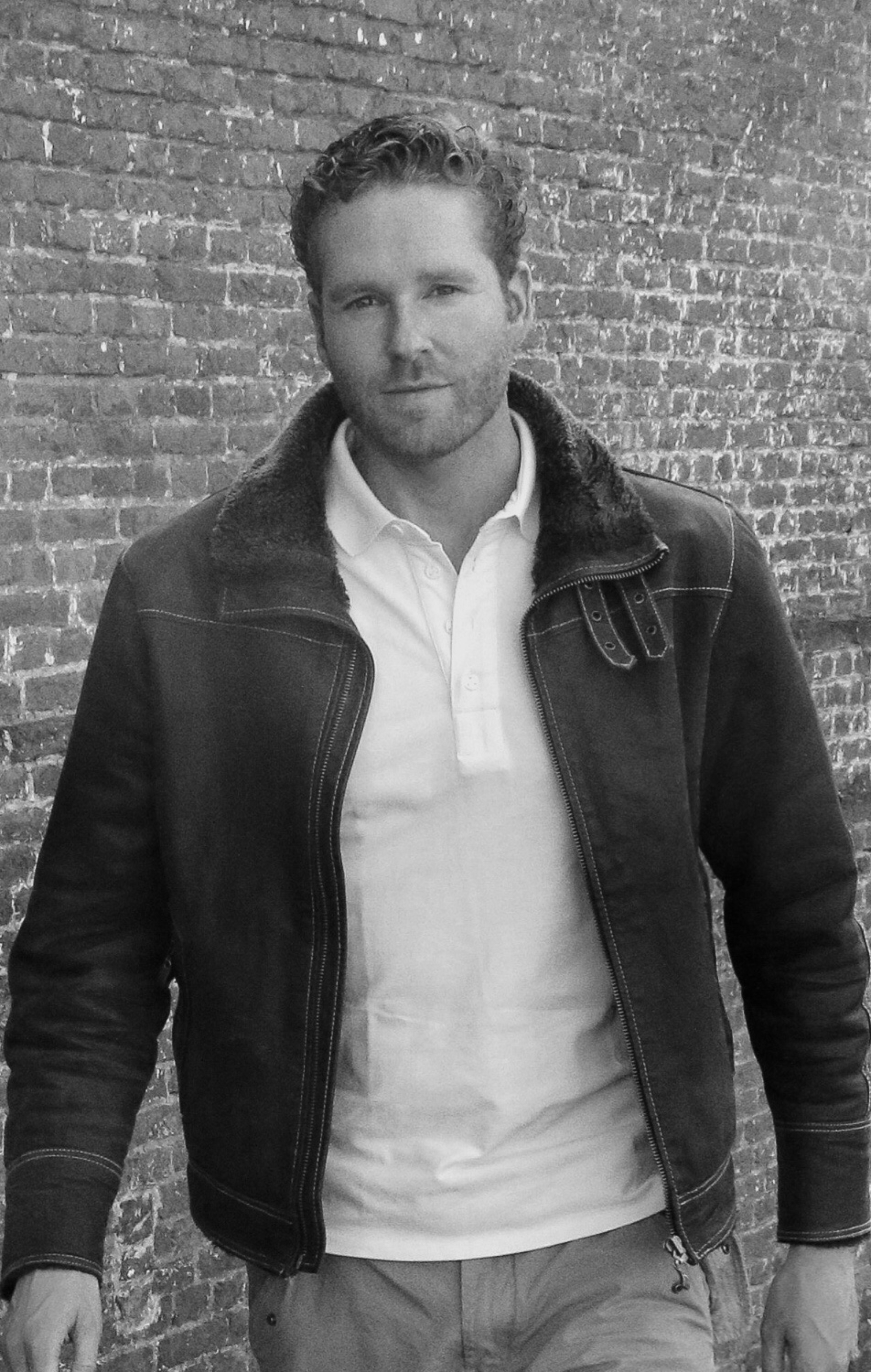 Sander Jan Klerk Dutch actor on set in 2019